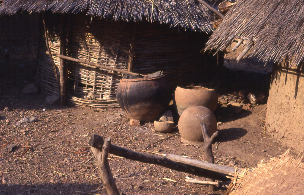 Large clay pot for brewing alcoholic beverage in the Bedik village of Iwol in southeastern Senegal (West Africa)